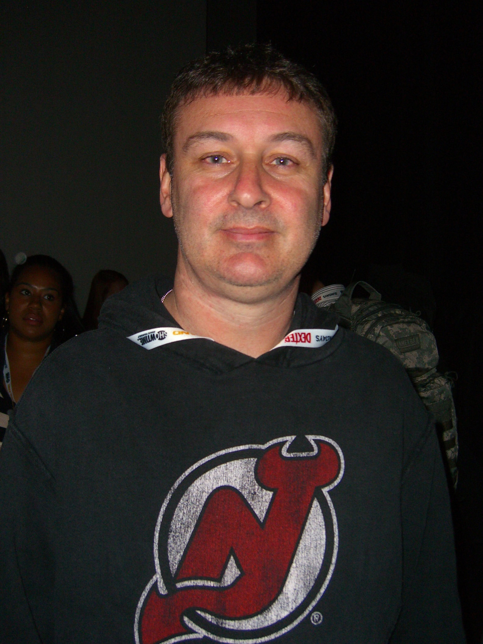 Artist, actor and reality television personality Walt Flanagan follwoing the Comic Book Men panel discussion at the IGN Theater on Day 2 of the 2012 New York Comic Con, Friday October 12, 2012 at the Jacob K. Javits Convention Center in Manhattan. This photo was created by Luigi Novi. It is not in the public domain, and use of this file outside of the licensing terms is a copyright violation.